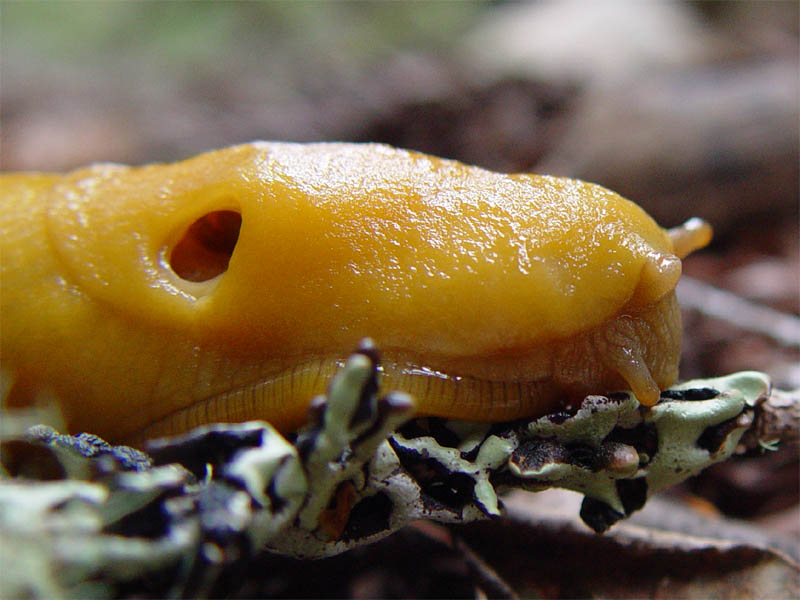 Description: Ariolimax californicus aka banana slug Date: April 4, 2004 Location: Pescadero Creek County Park, San Mateo County, CA (USA) Photographer: Franco Folini